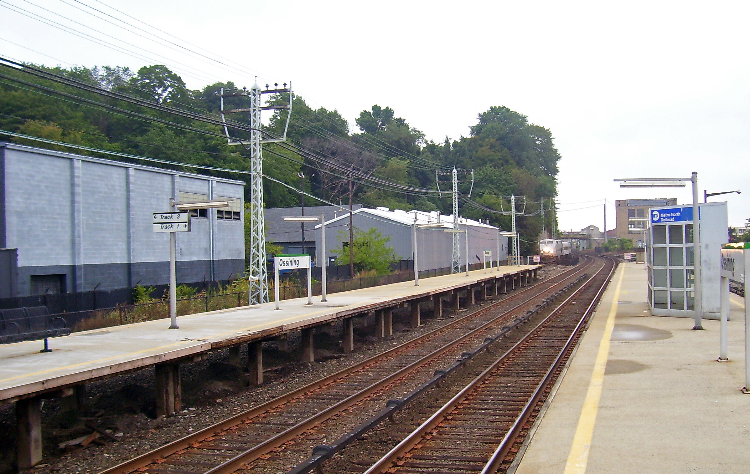 Ossining station on Metro-North Hudson Line in Ossining, NY, USA. Sing Sing prison visible in background